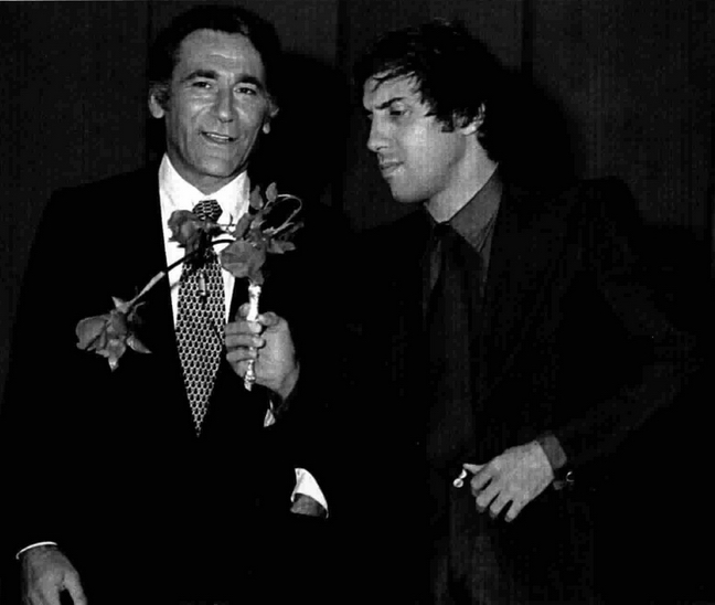 Italian actor Alberto Lupo with Adriano Celentano, Teatro 10, Rome.